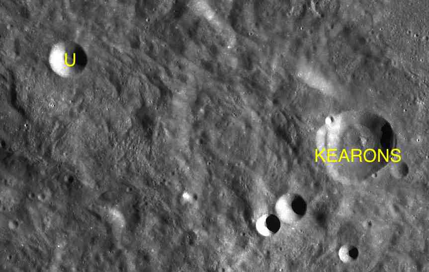 Part of the chart LAC-89 used for the presentation